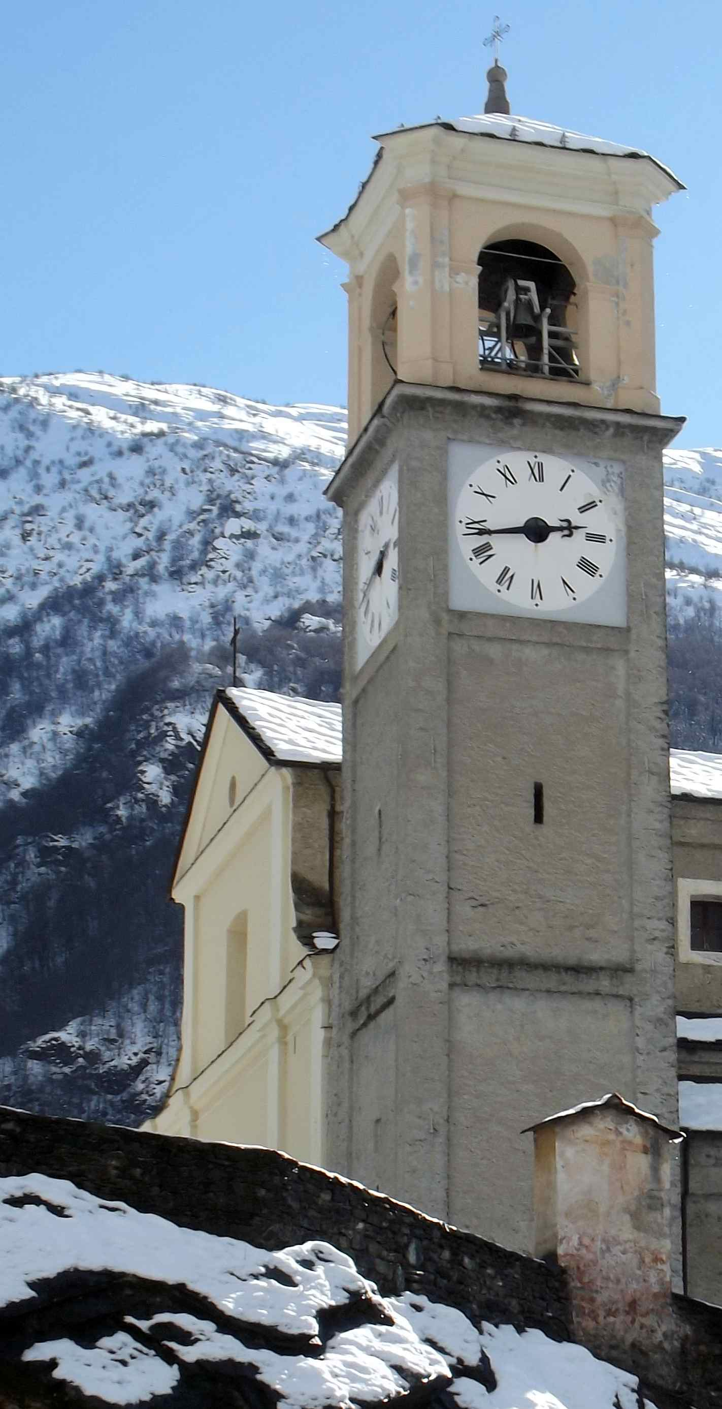 Lemie (TO, Italy): church tower